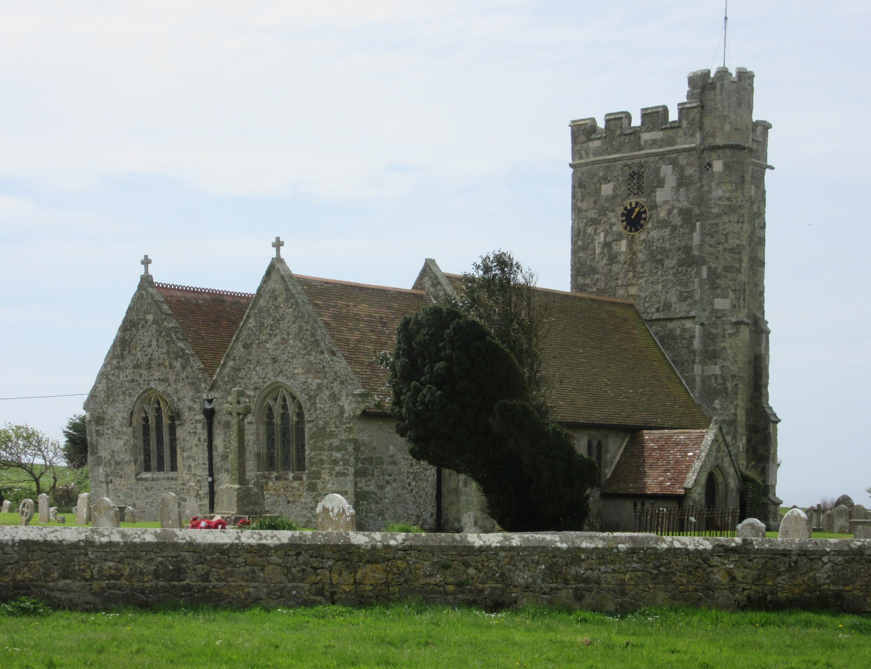 St Andrew's Church, Church Place, Chale, Isle of Wight, England. The Anglican parish church of the village of Chale.